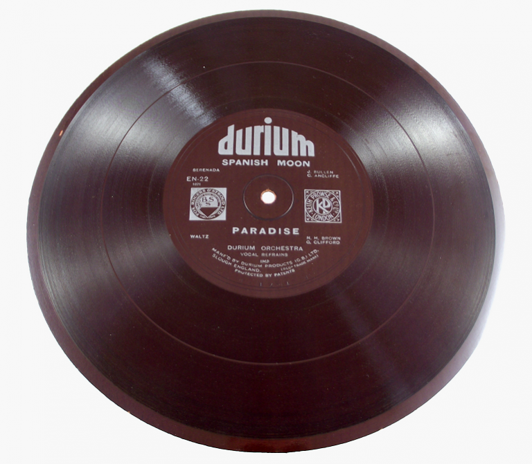 A brown resin durium record